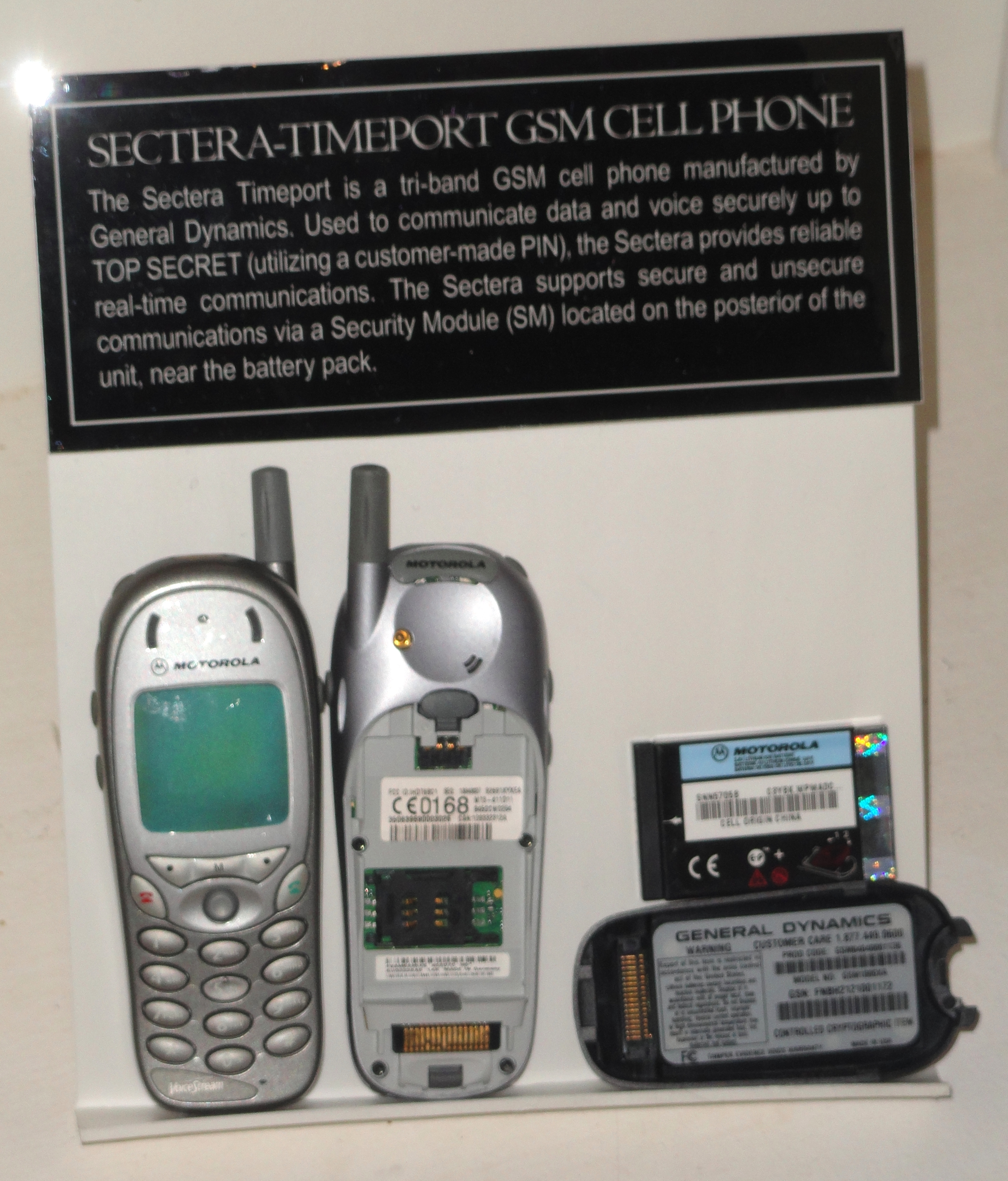 Exhibit in the National Cryptologic Museum, Fort Meade, Maryland, USA. All items in this museum are unclassified; items created by the United States Government are not subject to copyright restrictions.